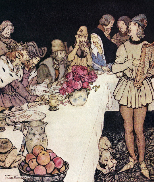 "How at a great feast that King Mark made came Eliot the harper and sang the lay that Dinadan had made." From The Romance of King Arthur (1917). Abridged from Malory's Morte d'Arthur by Alfred W. Pollard. Illustrated by Arthur Rackham. This edition was published in 1920 by Macmillan in New York.